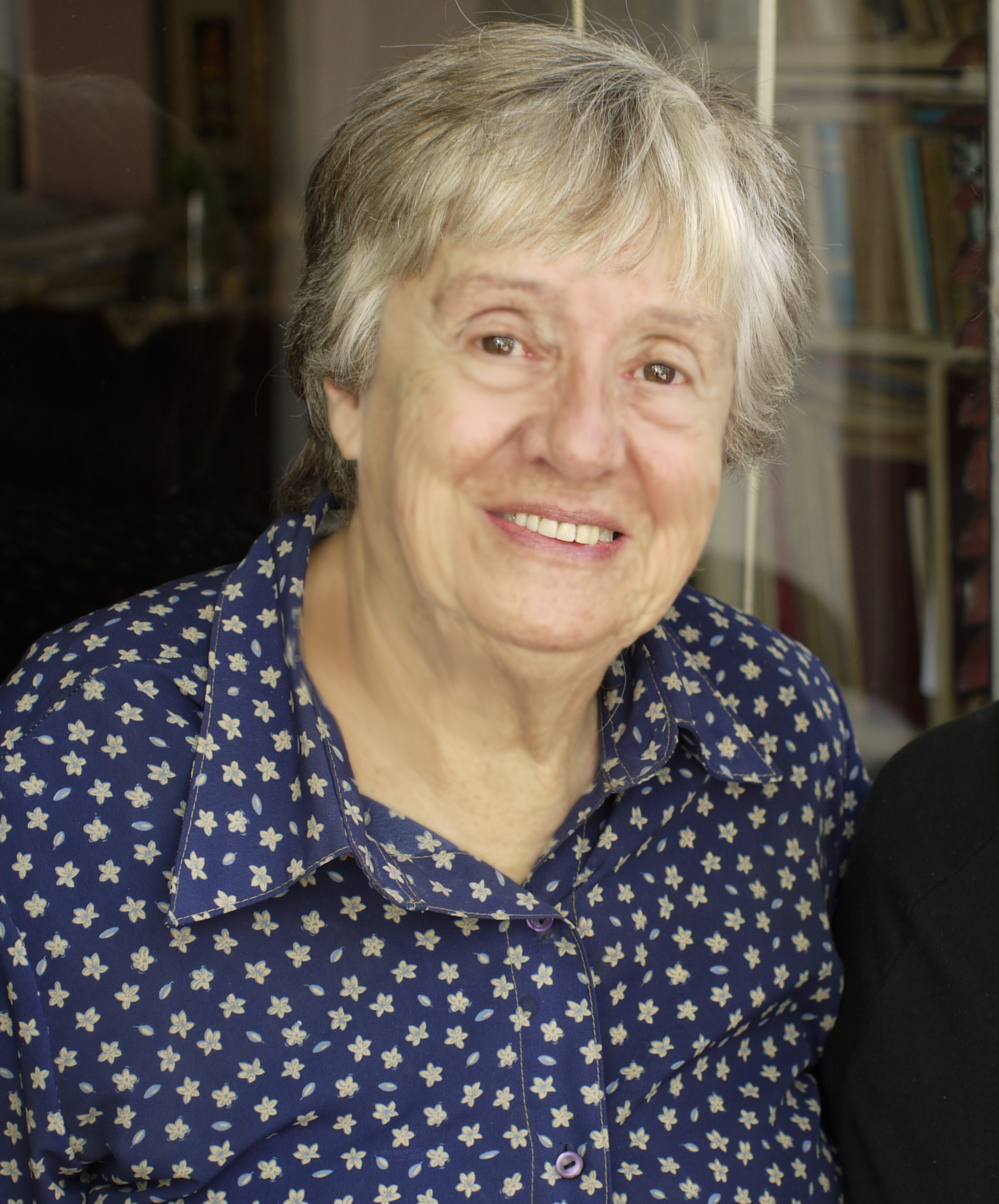 Uruguayan poet Circe Maia at her home in Tacuarembó, 16 April 2014.